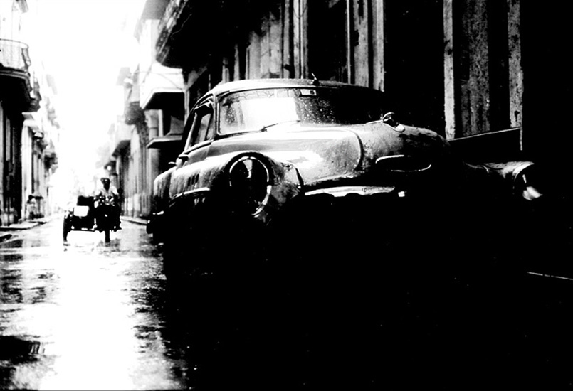 In Old Havana. Photo by Gary Mark Smith.